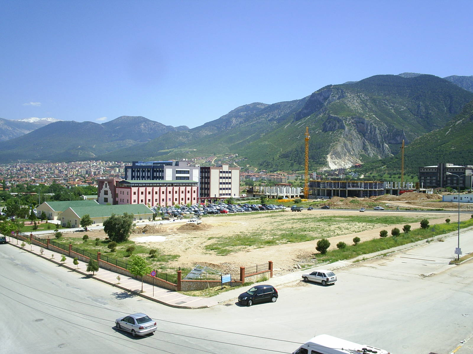 Pamukkale University Medical school